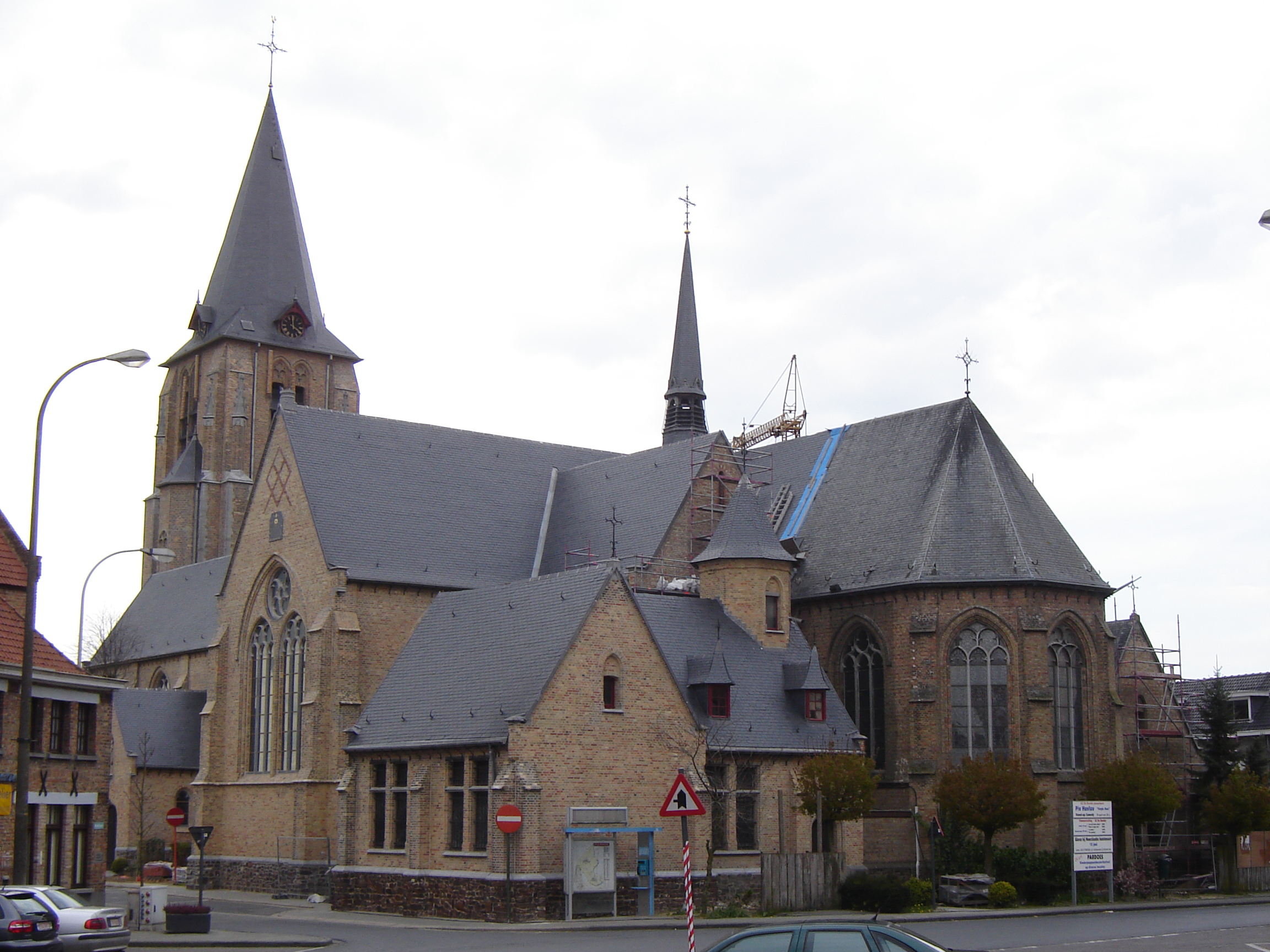 Church of Saint Martin in Moorslede. Moorslede, West Flanders, Belgium